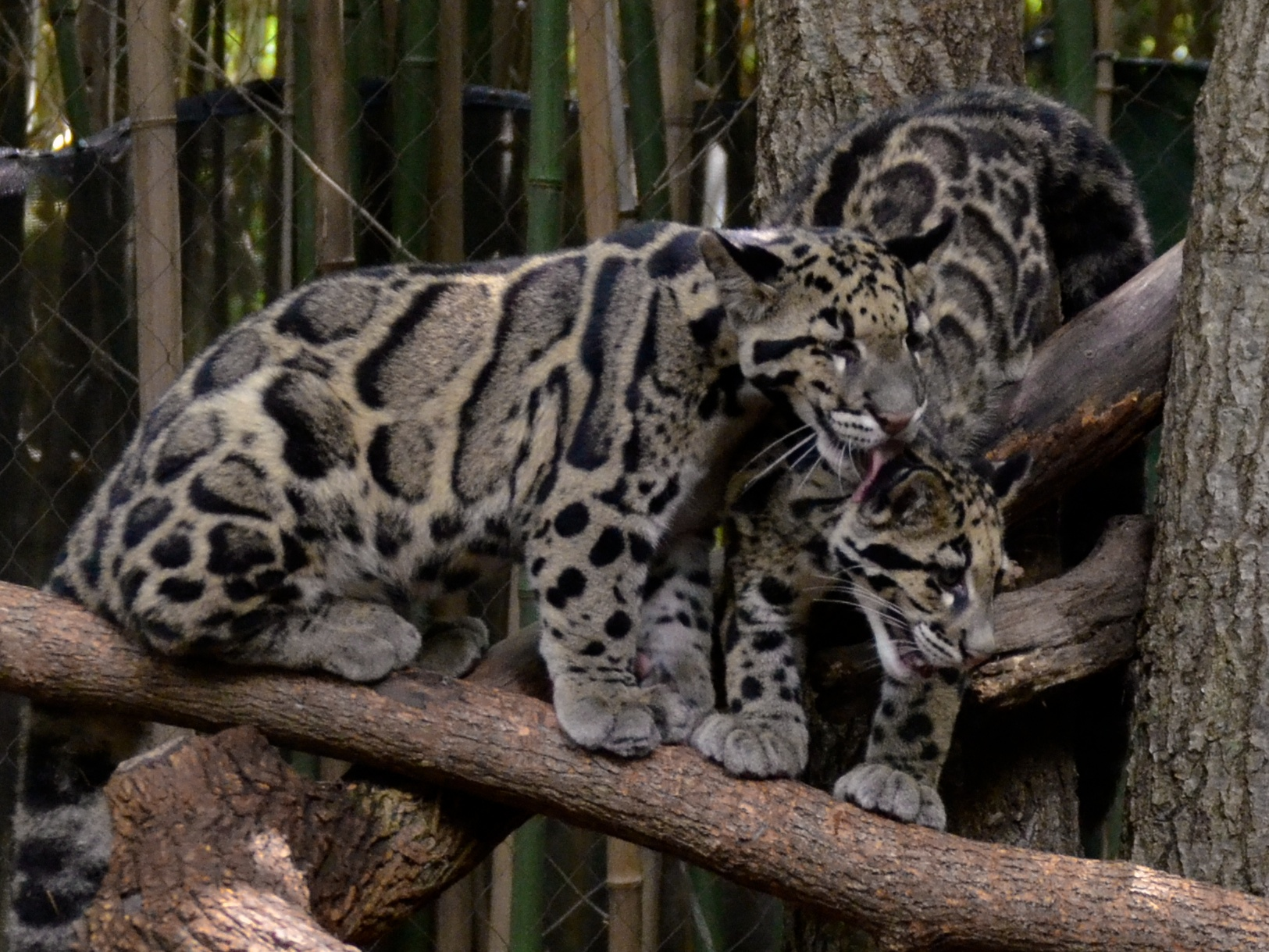 Two Clouded Leopards in Nashville Zoo. Wet Behind the Ears